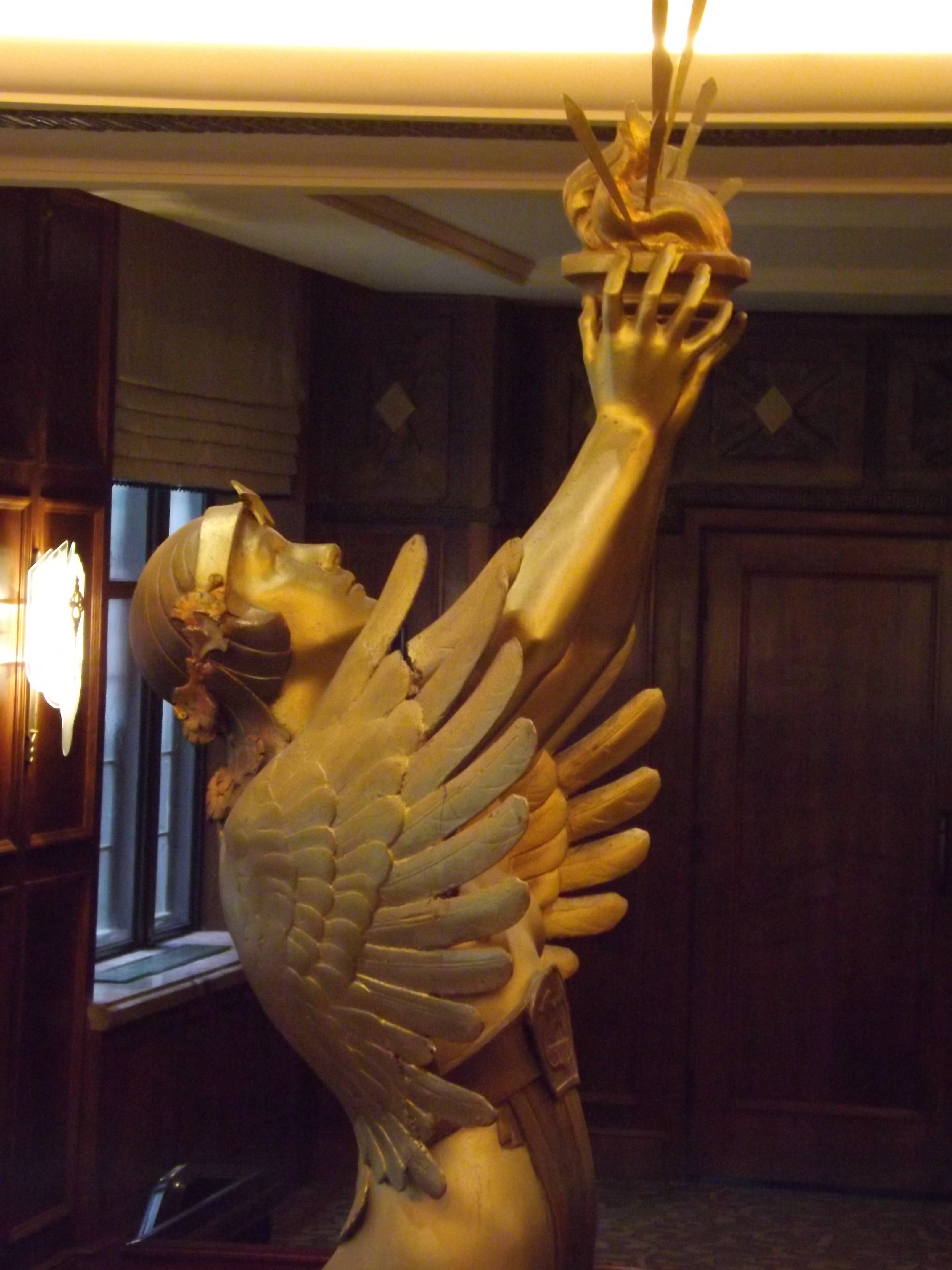 This statue was sculpted by Norwegian-born Jorgen C. Dreyer in 1932 for the Hotel Phillips.